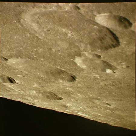 Almanon lunar crater - Apollo-16 image AS16-121-19397